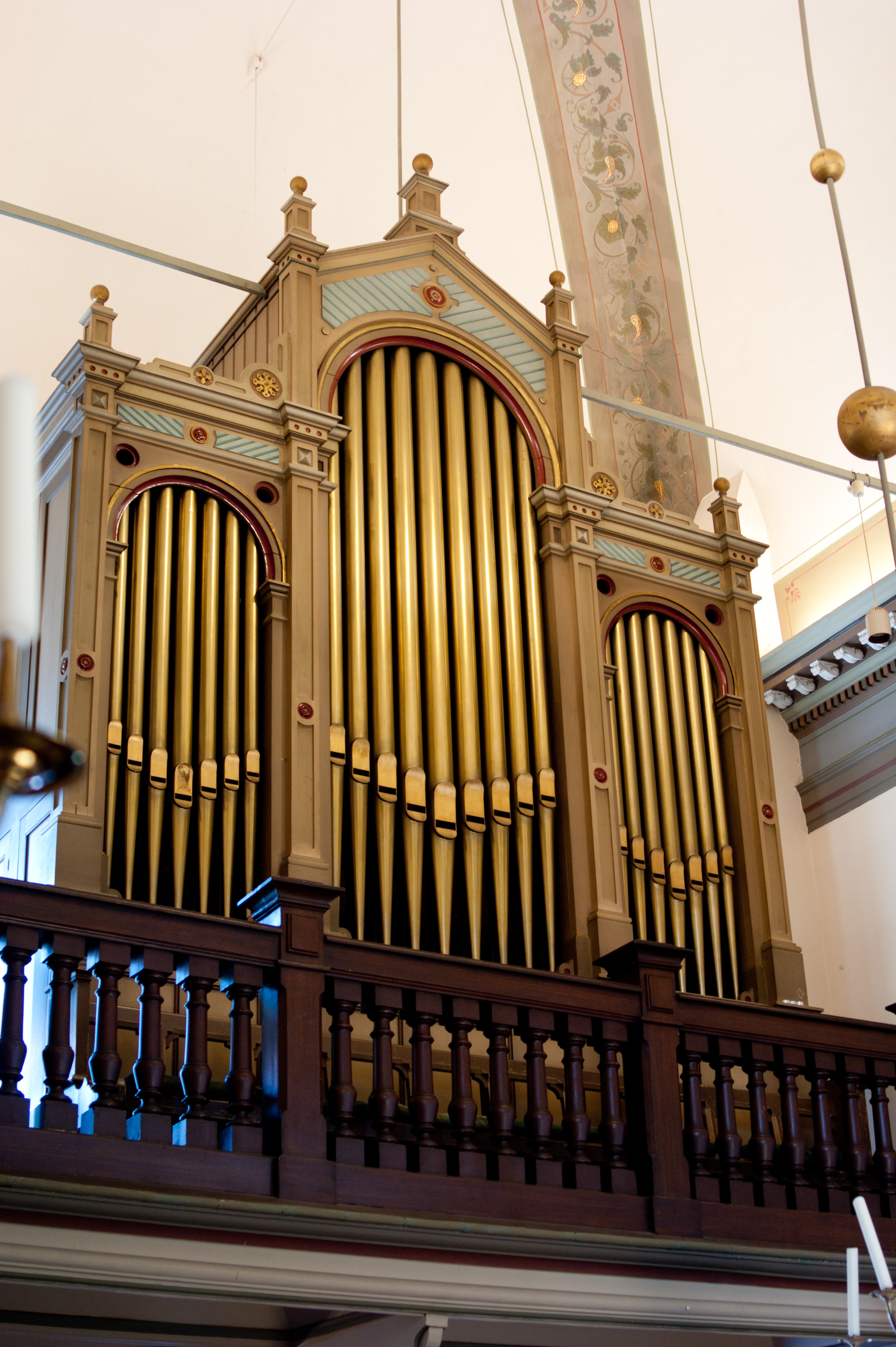 Orgel Oud-katholieke Parochie Culemborg